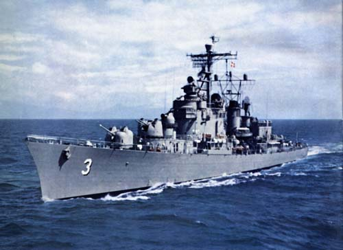 The U.S. Navy destroyer leader ("frigate") USS John S. McCain (DL-3) underway in the early 1960s.